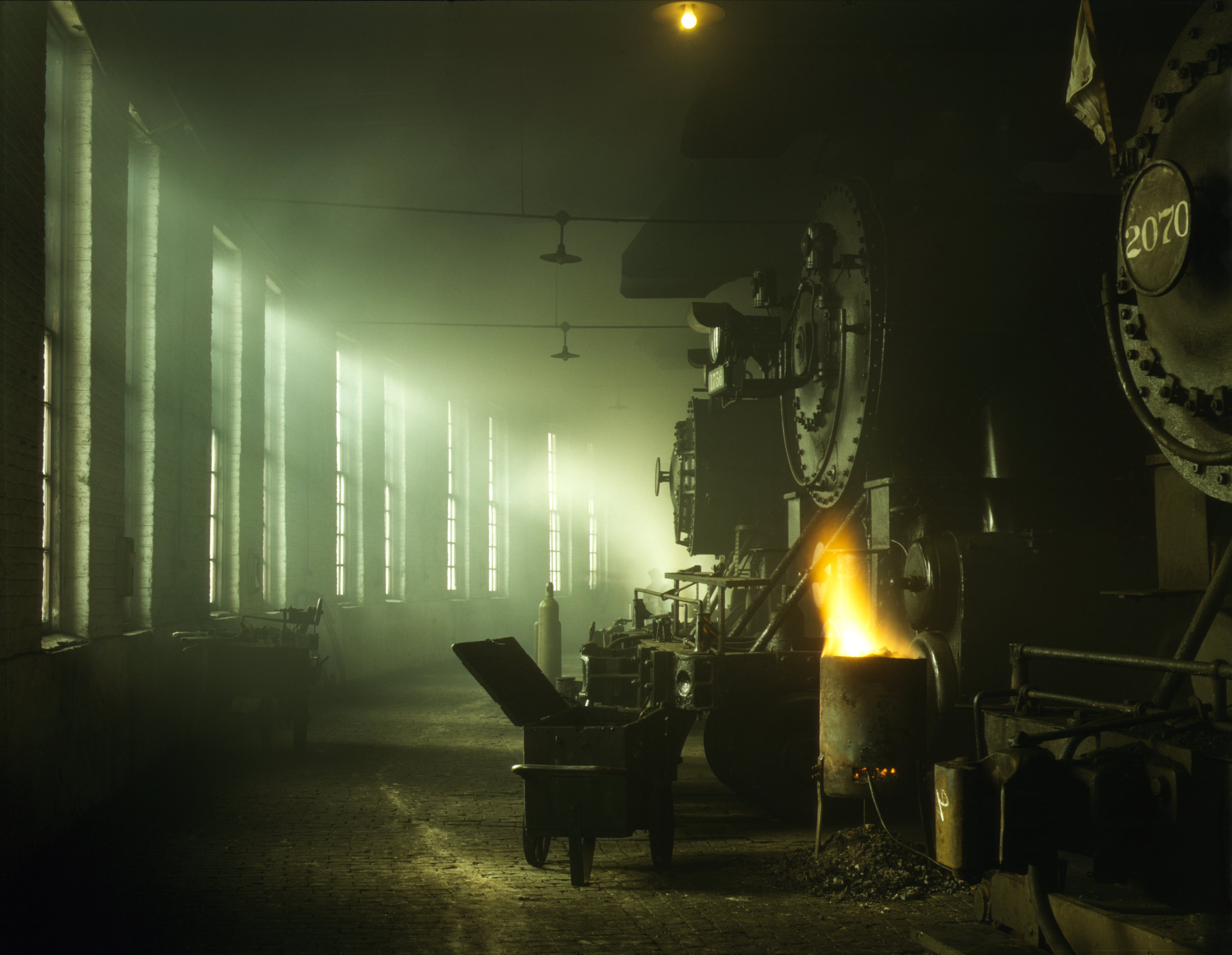 Cleaned up version of Image:Locomotives-Roundhouse.jpg. Steam locomotives of the Chicago & North Western Railway in the roundhouse at the Chicago, Illinois rail yards.